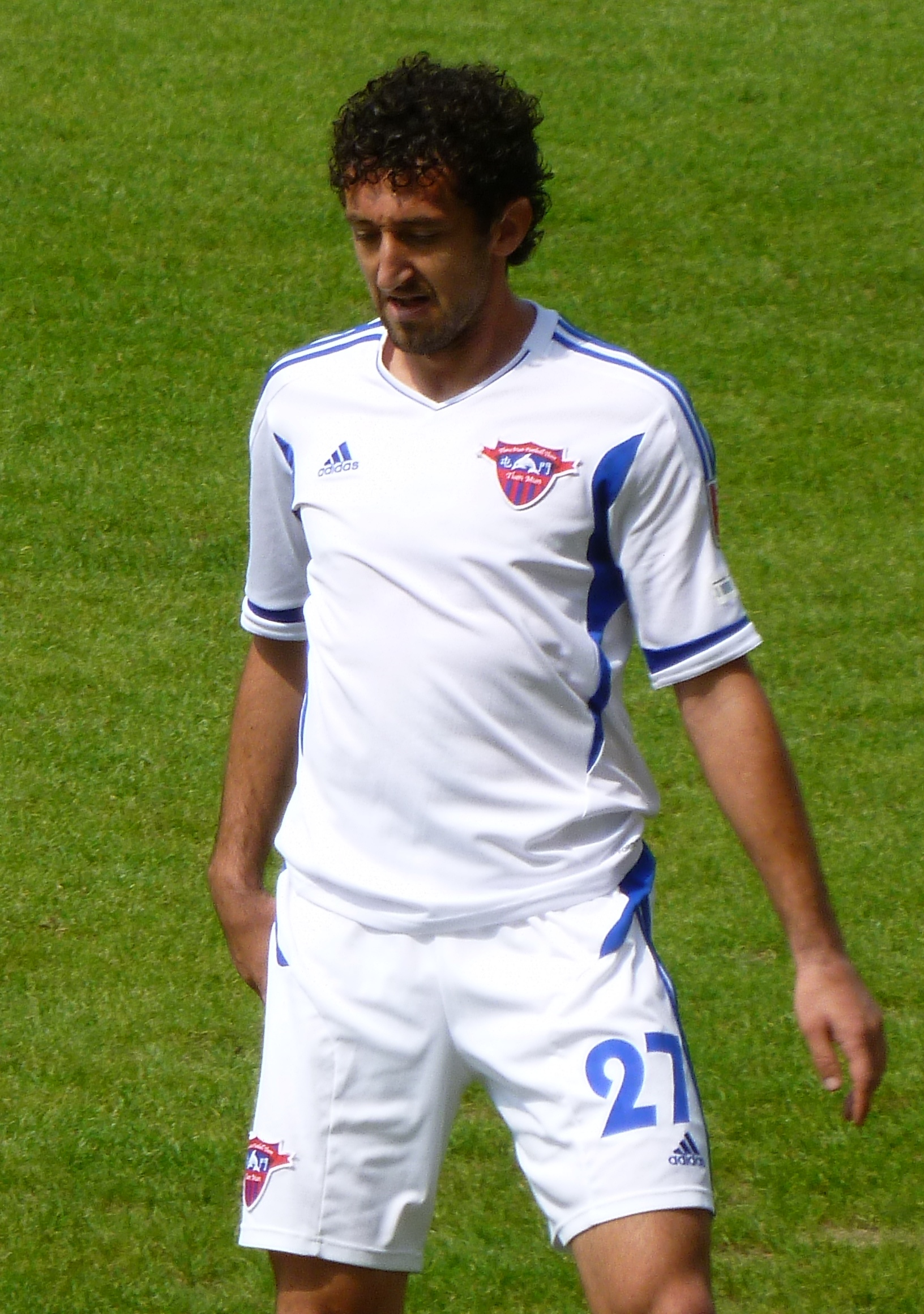 Milutin Trnavać (25 Mar 2012 Hong Kong FA Cup, Hong Kong Sapling vs Tuen Mun, Mong Kok Stadium)